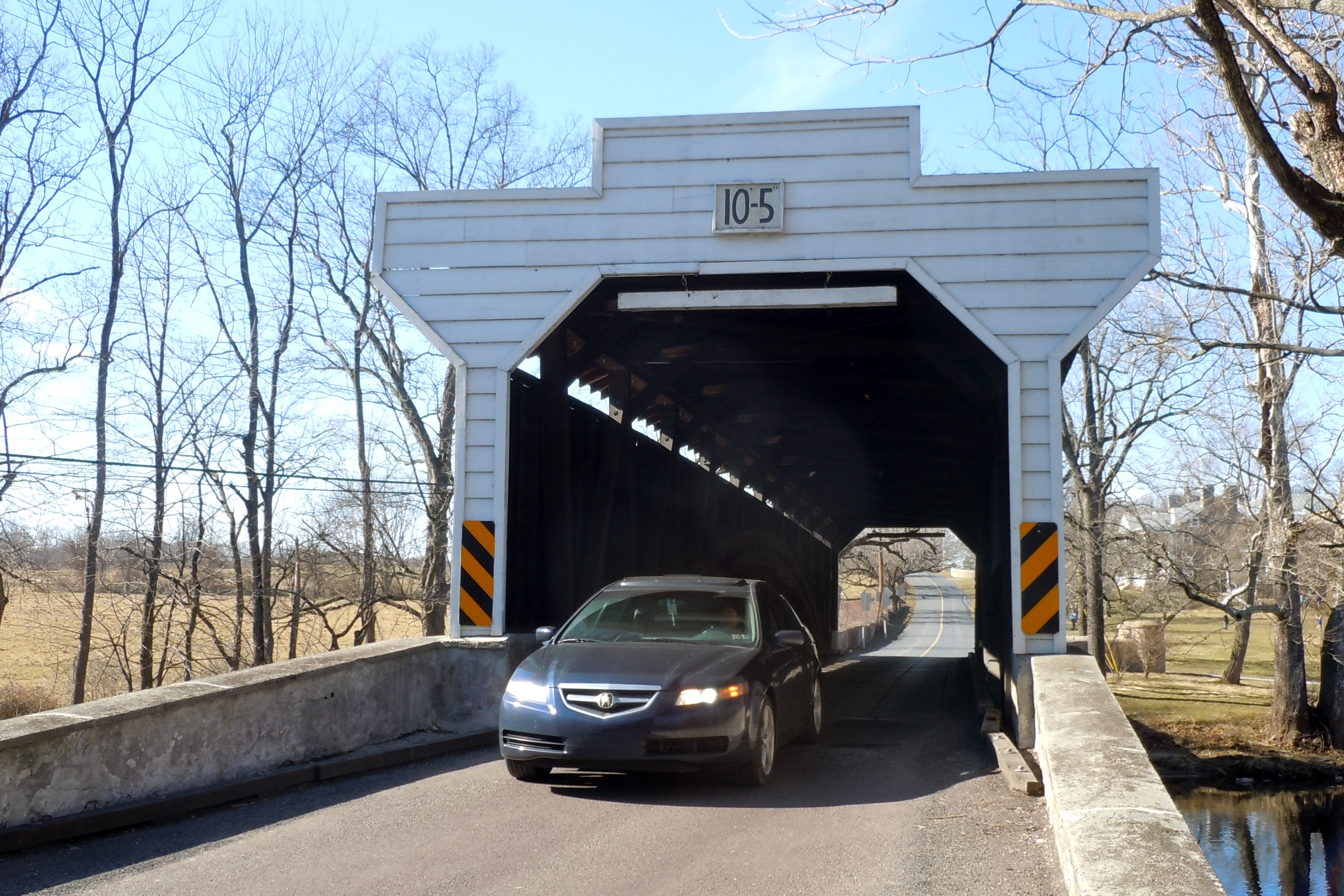 Kennedy Bridge (covered bridge) on the NRHP since January 21, 1974. Located north of Kimberton off Pennsylvania Route 23 on Seven Stars Road over French Creek in East Vincent Township, Chester County, Pennsylvania. Near Hare's Hill Road Bridge.